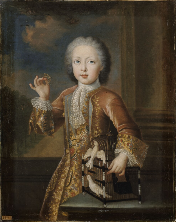 Portrait of a Prince of Lorraine, presumably Charles Alexander (1712-1780) or his elder brother Francis (1708-1765)